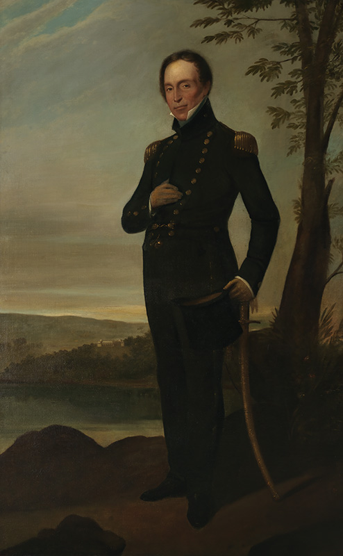 Captain John Piper, c.1826, oil painting by Augustus Earle, State Library of New South Wales, ML 6